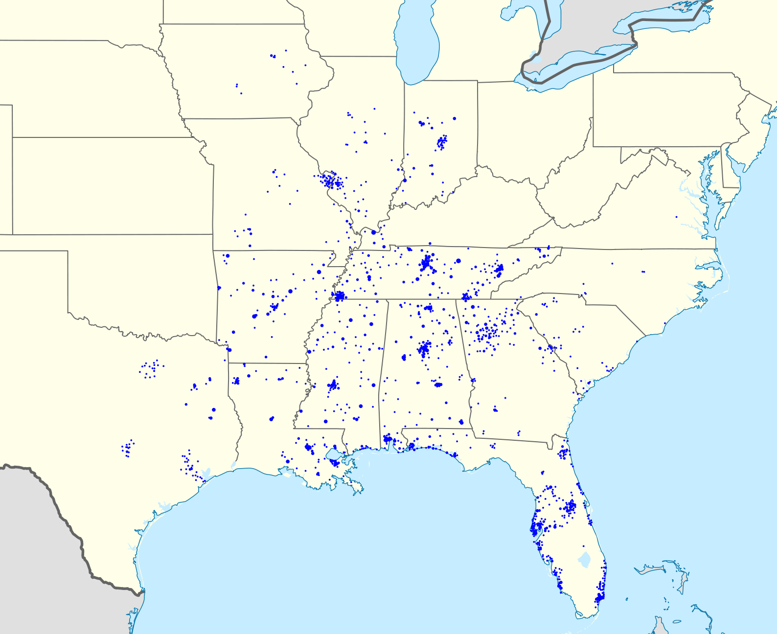 Footprint of Regions Bank. Cities with more than one branch have progressively larger points.